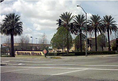 A typical driveway on the edge of the parking lot of Ontario Mills, a Mills Corporation shopping mall in Ontario.